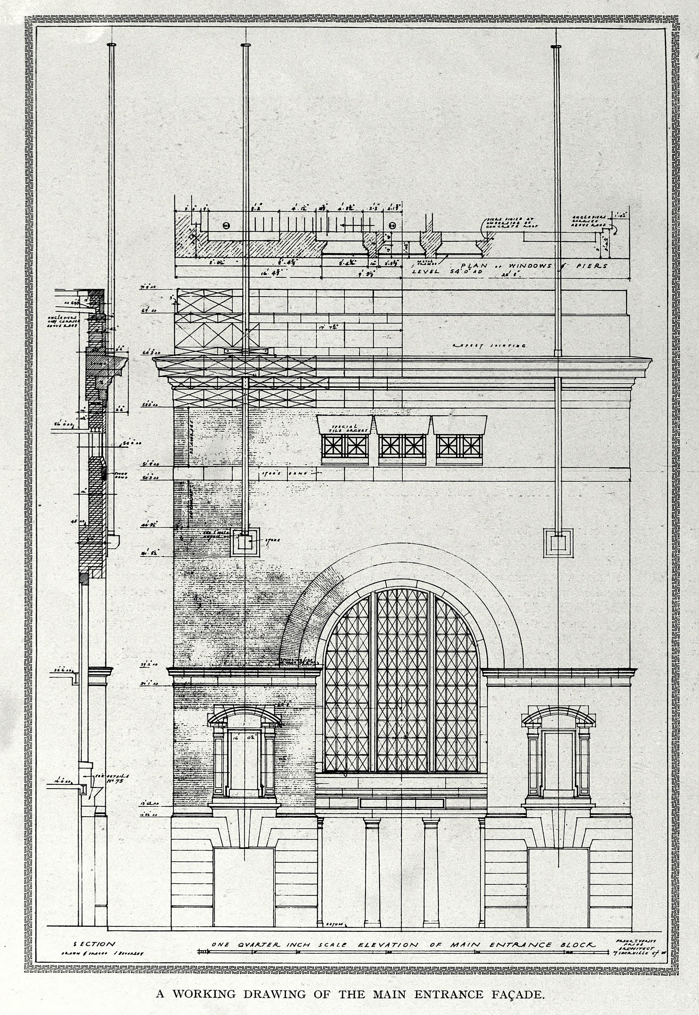 A Work Drawing of the Main Façade, Shepherd's Bush Pavilion